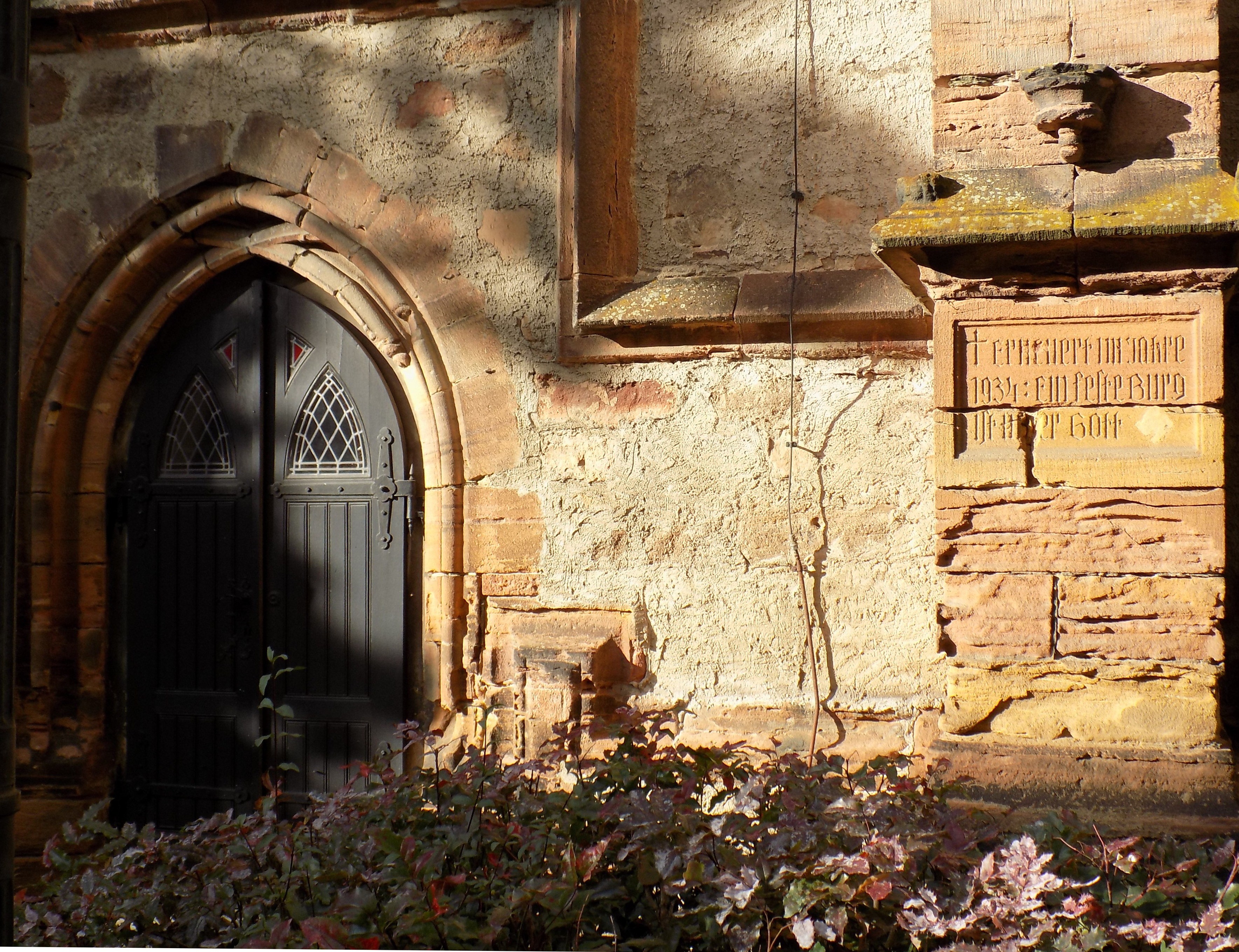 Portals at St. Nicholas' Church in Schmölln (district of Altenburger Land, Thuringia)